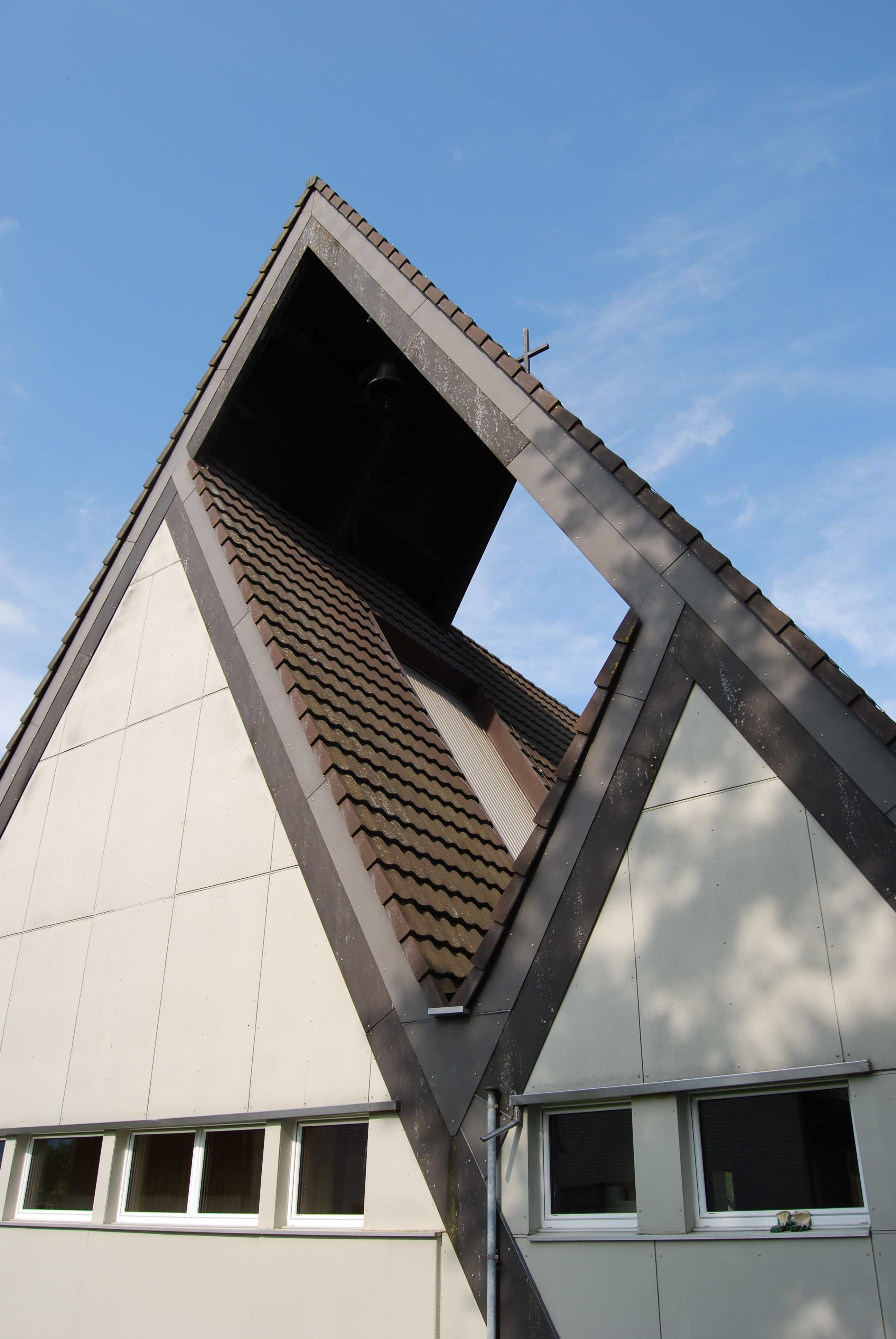 Church of Boningen, canton of Solothurn, Switzerland